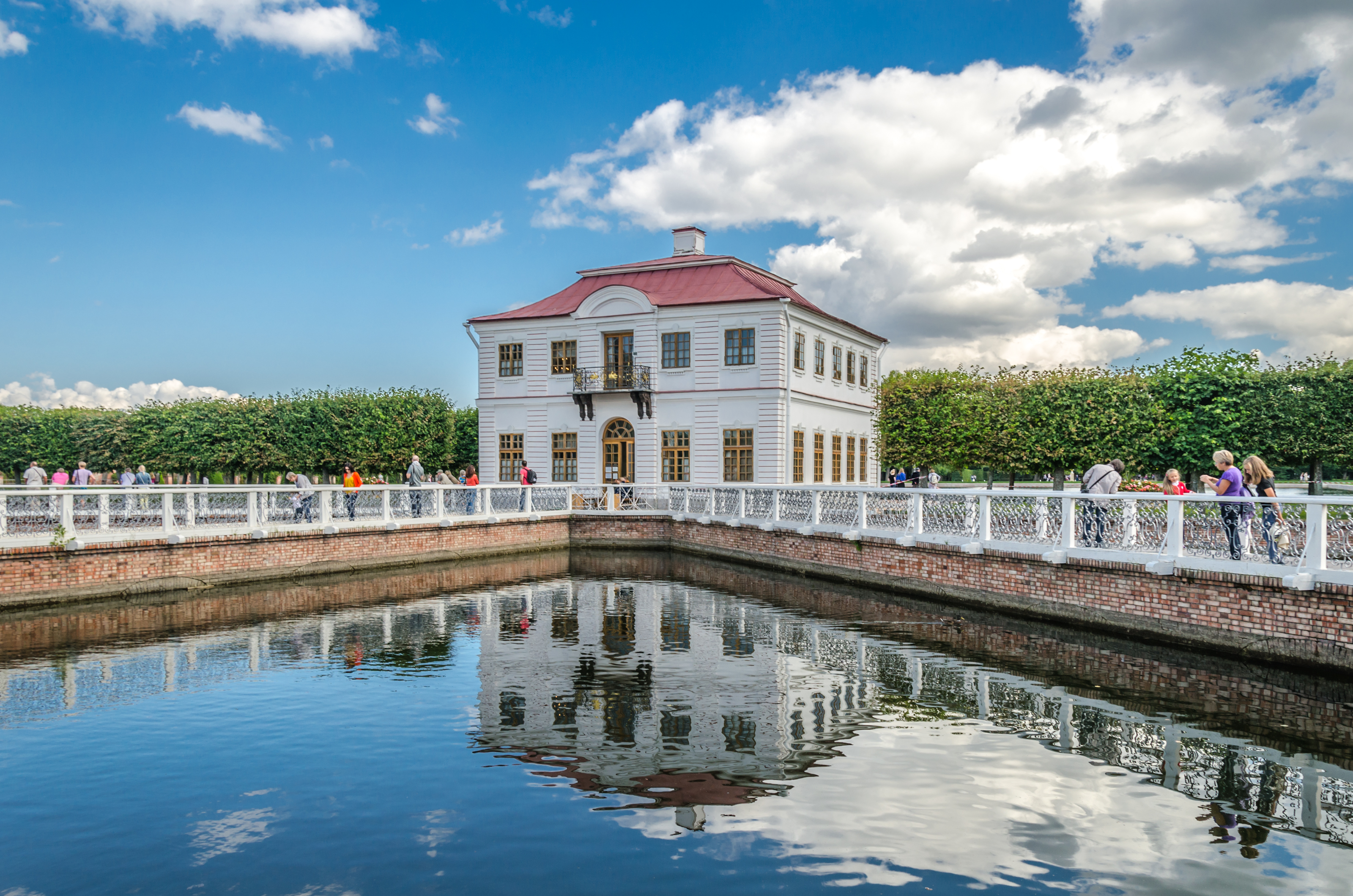 Marly palace in the Lower Park of Peterhof